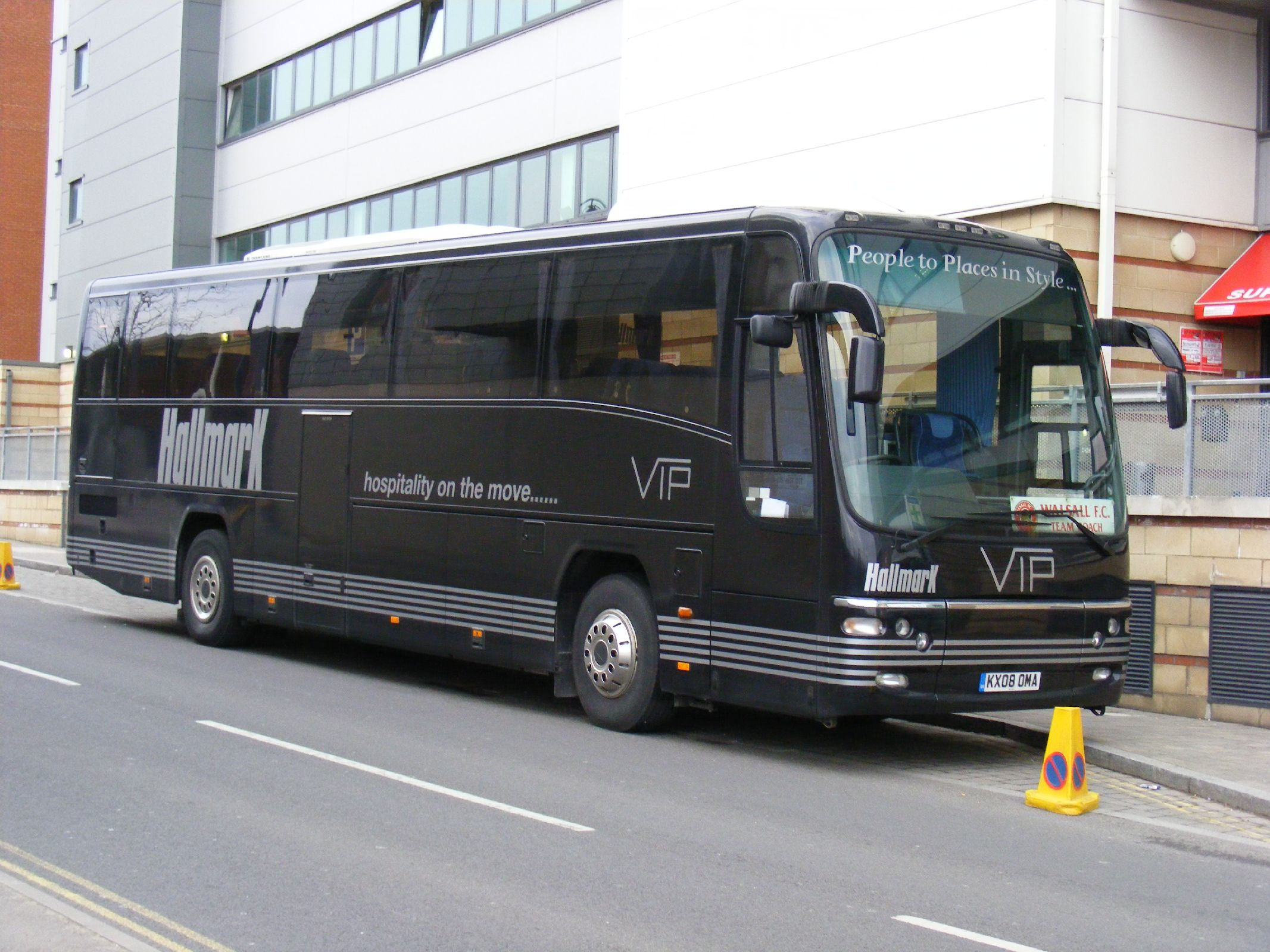 Leyton Orient 2 Walsall 0. Much needed points for the Os after a long period without a win. Walsall FC travelled in this smart Flights Hallmark Volvo B12B with Plaxton bodywork.